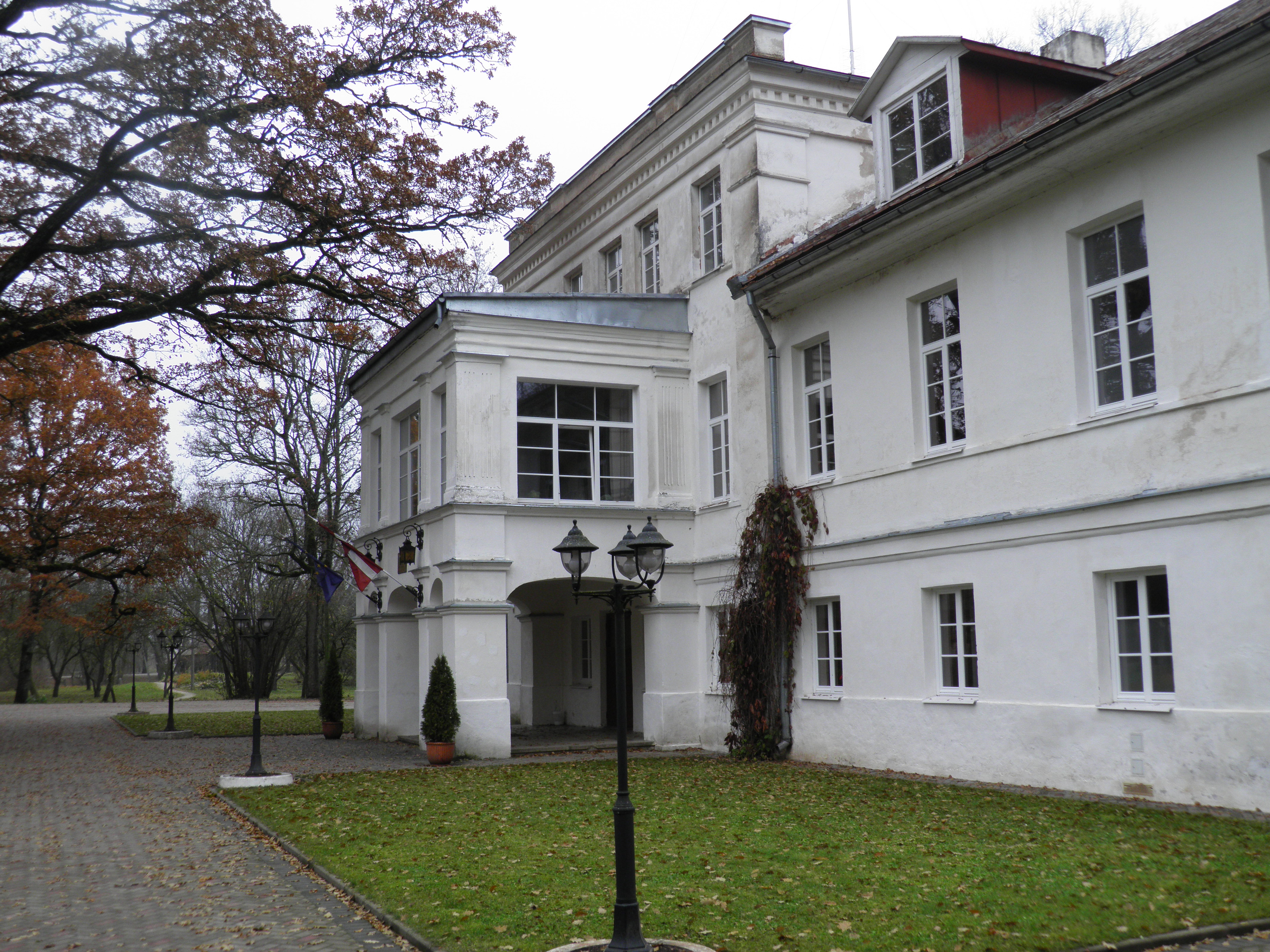 manor